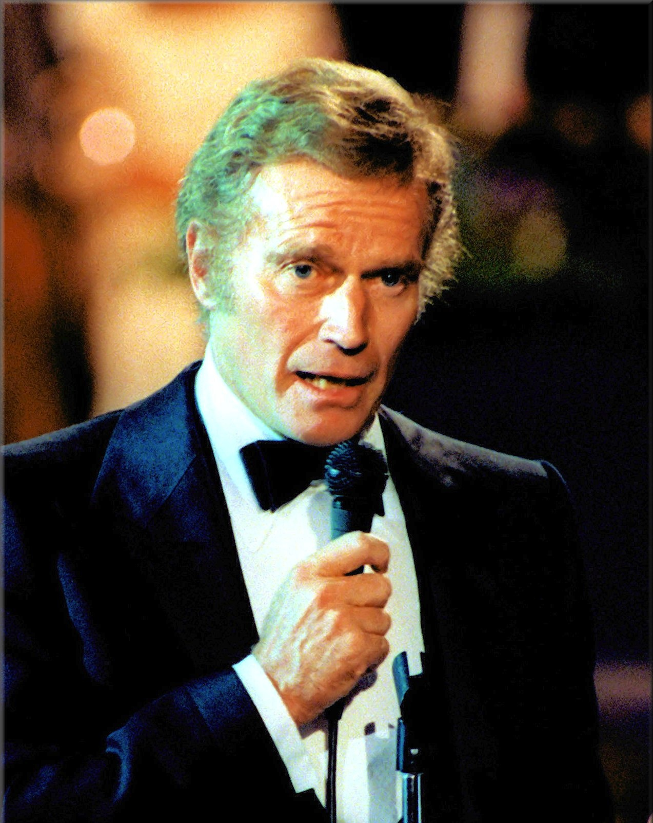 Actor Charlton Heston, president, American Film Institute, addresses the honored guests during the gala celebration at the Capital Center, during Inauguration Day in Landover, Maryland, USA.